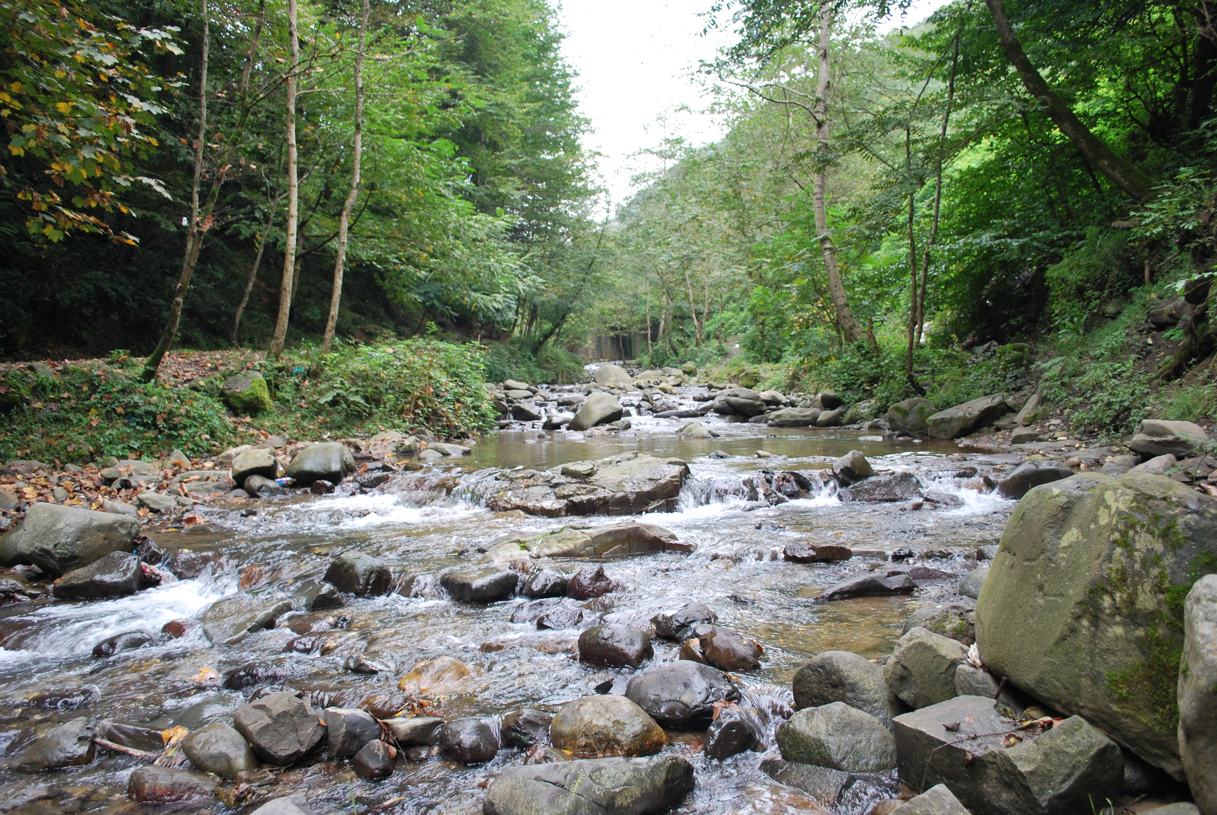 River